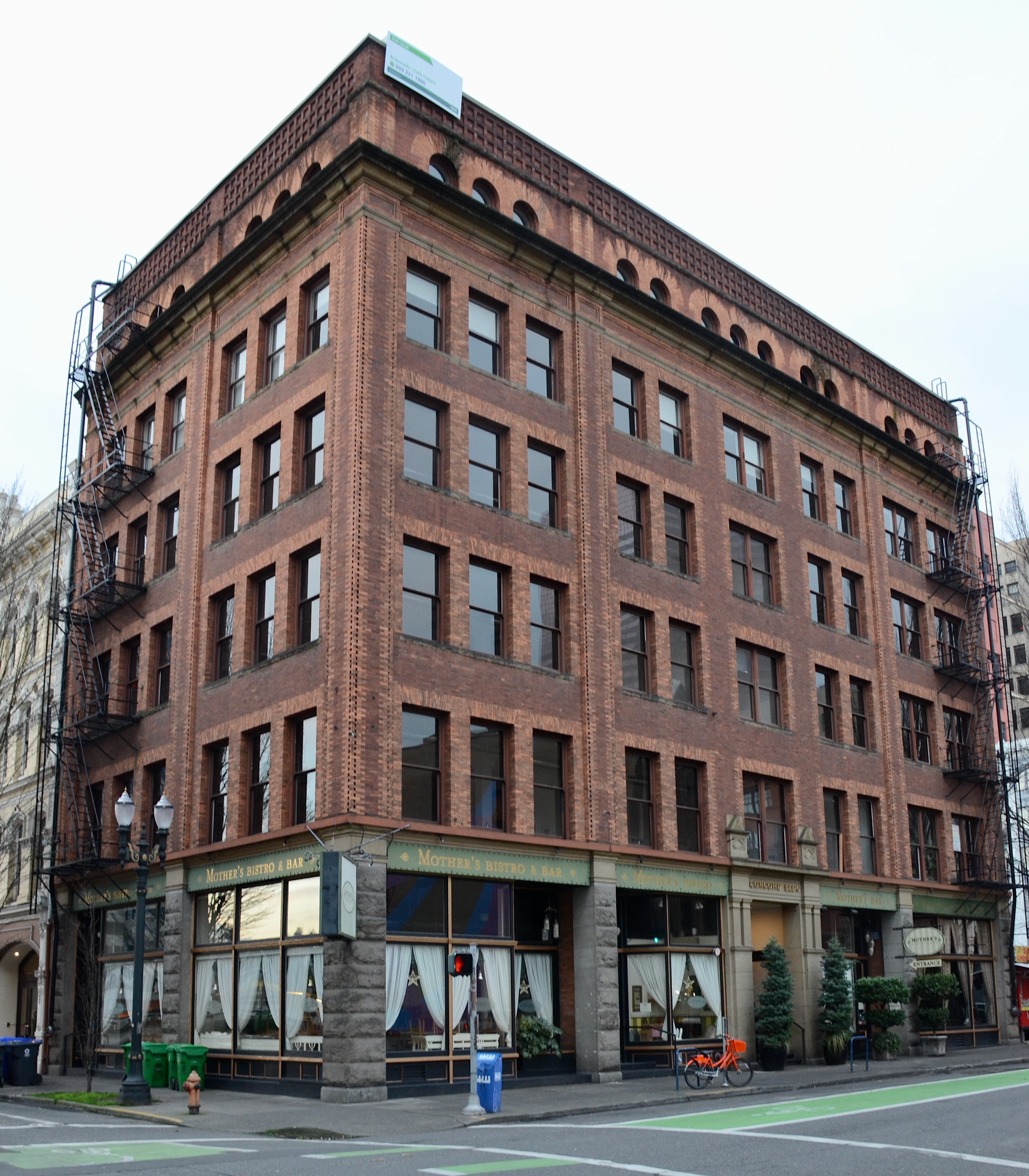 The Concord Building in downtown Portland, Oregon, viewed from the northeast, across the intersection of SW 2nd Avenue and Harvey Milk Street (formerly Stark Street).